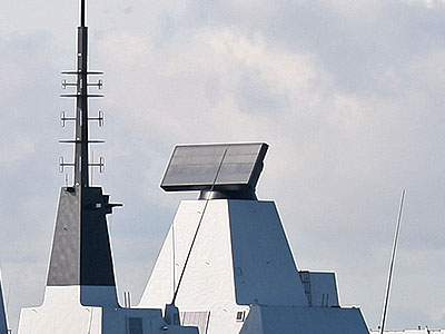 HMS Daring (D32), a stealth design of area defence anti-aircraft destroyer of the Royal Navy, outward bound from Portsmouth Naval Base, UK.